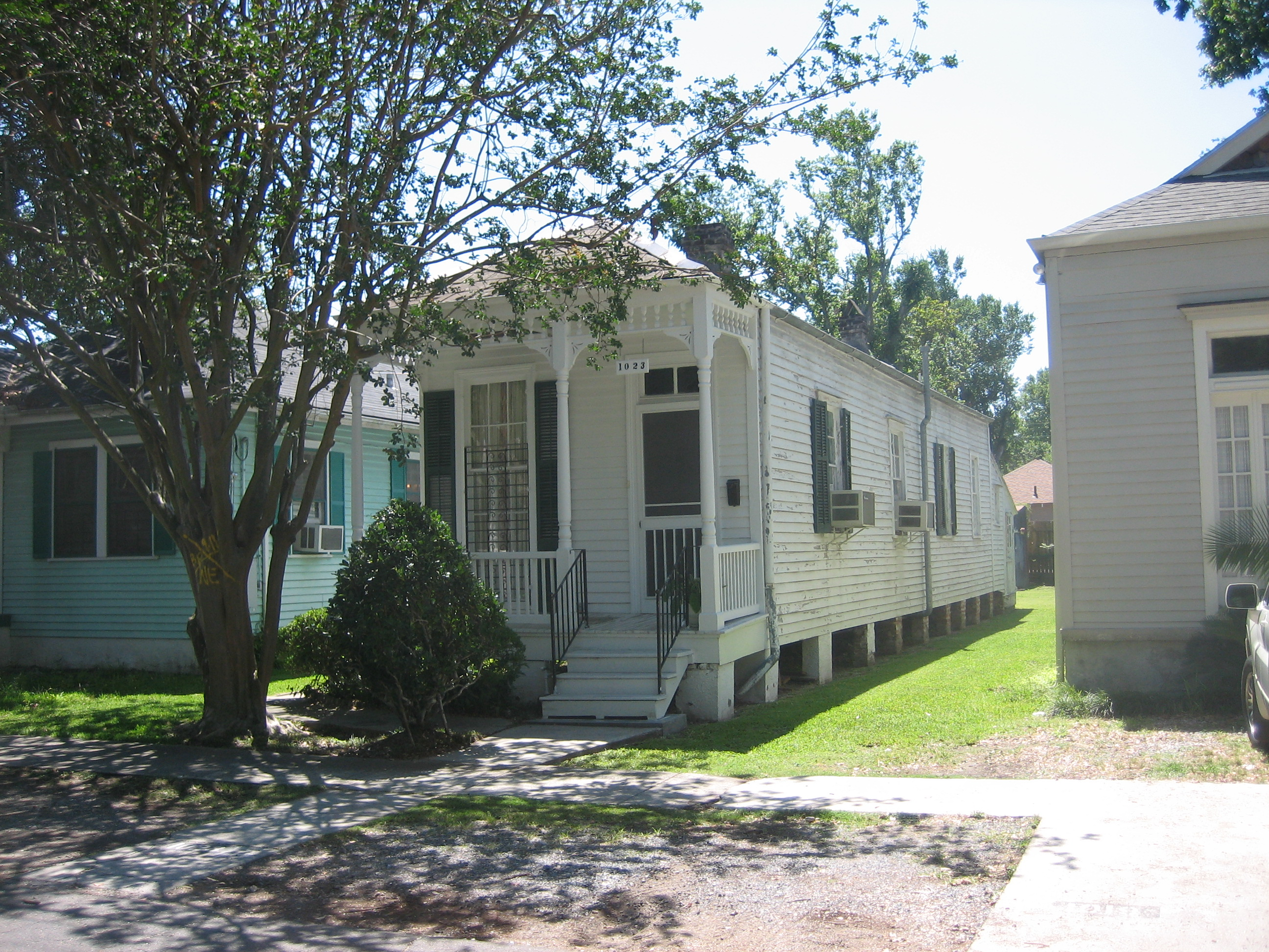 Uptown New Orleans "Shotgun" style house. Unusually, the post- Hurricane Katrina search & rescue team "X" marking was made on the tree in front of the house rather than the house.